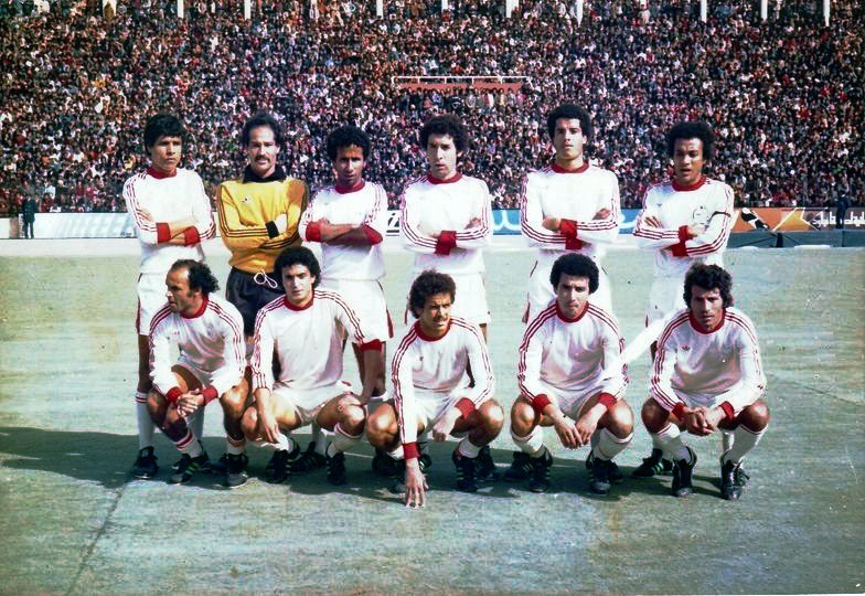 MC Oran in Ahmed Zabana Stadium - 1978-79 season